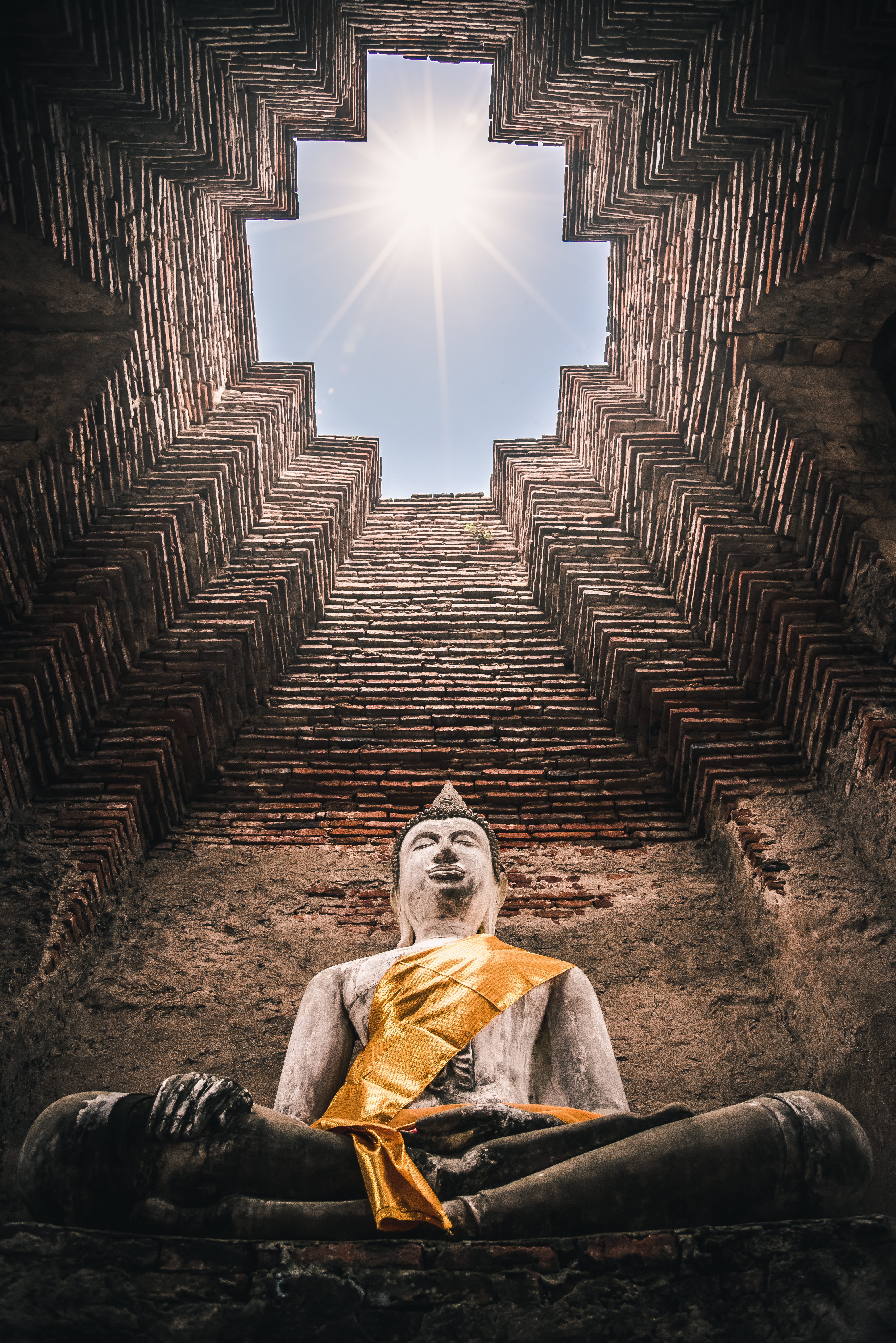 Prasat Nakhon Luang, Nakhon Luang District, Phra Nakhon Si Ayutthaya Province